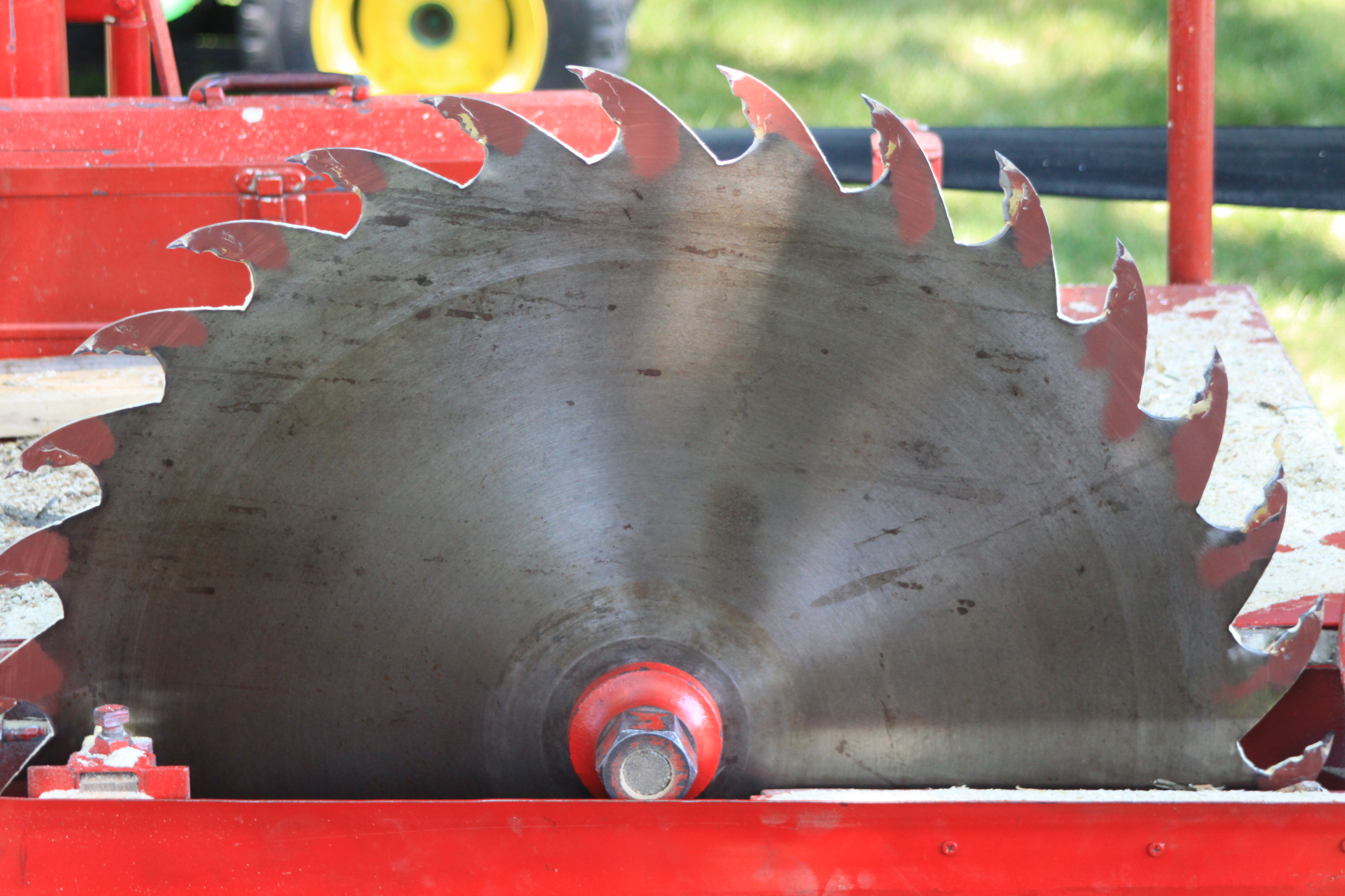 Circular saw blade on antique portable sawmill.